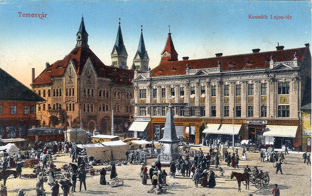 Postcard, undated ( ca.1914 ). Title: "Temesvar - Lajos-Kossuth square."